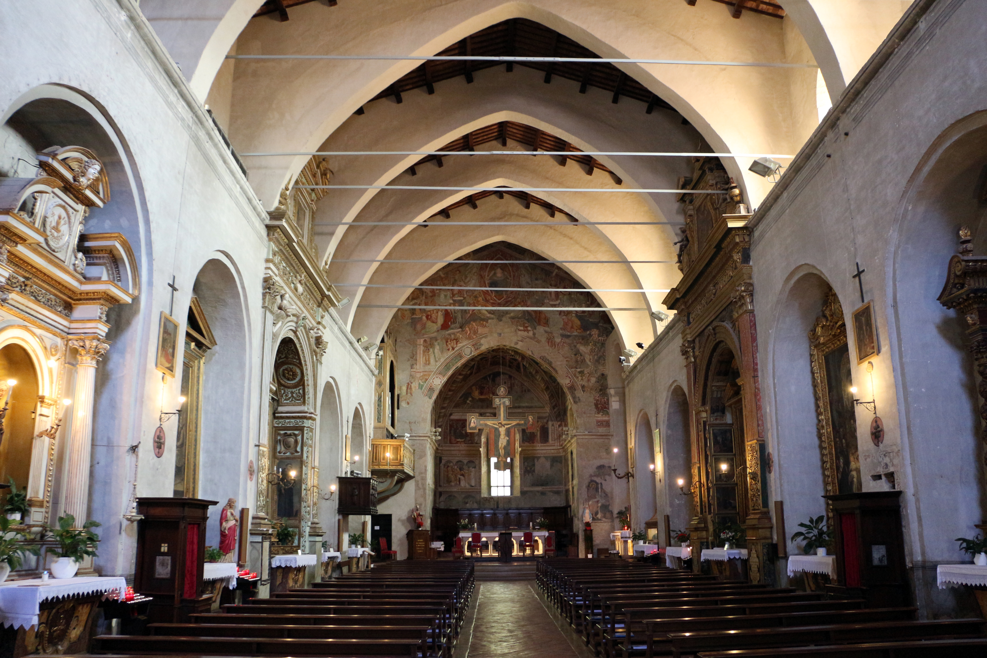 Sant'Agostino (Gubbio)